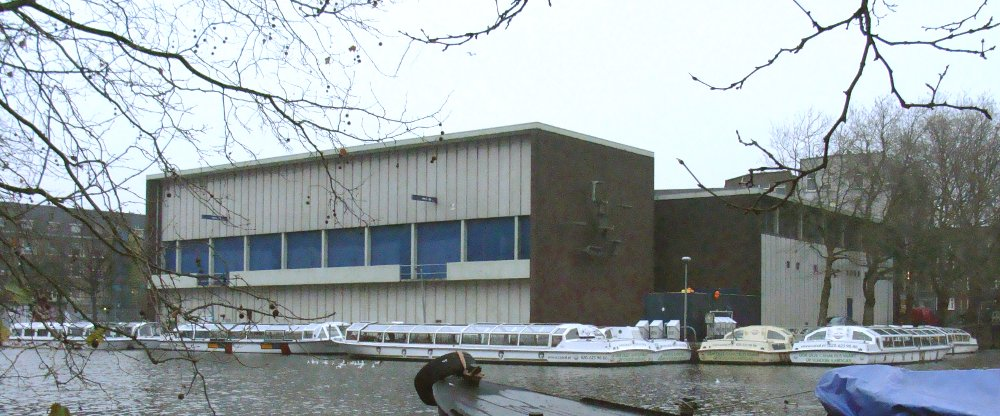 The 50 kV substation at the Marnixstraat, Amsterdam, the Netherlands